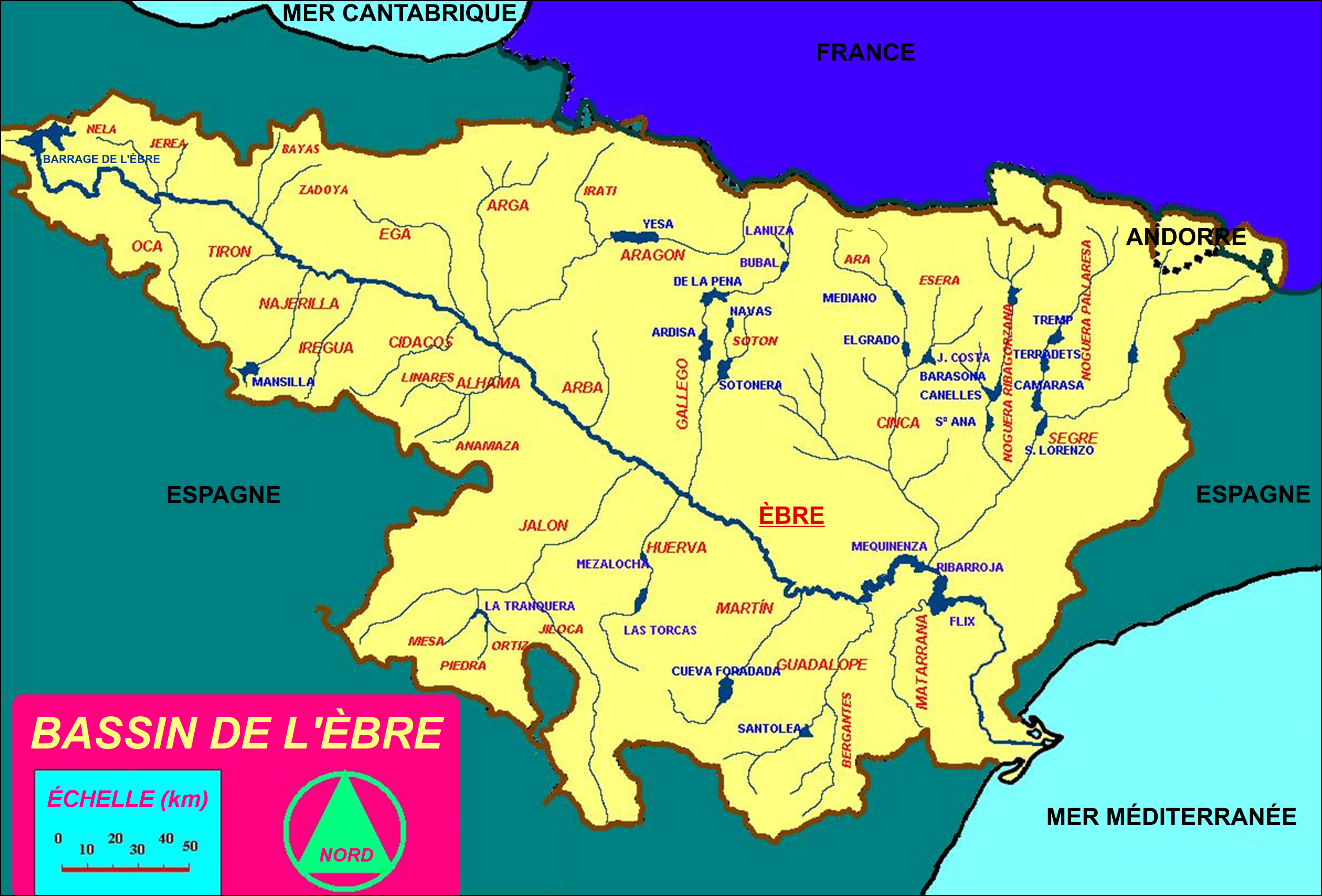 The Watershed of the Ebro River, in northern and northeastern Spain. The Ebro River is the biggest river by discharge volume in Spain.